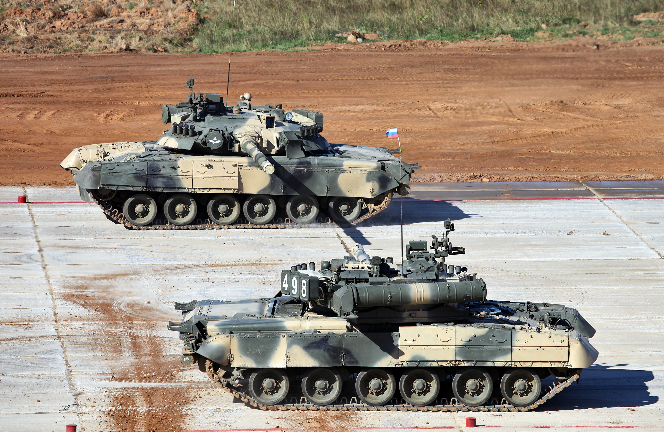 T-80U